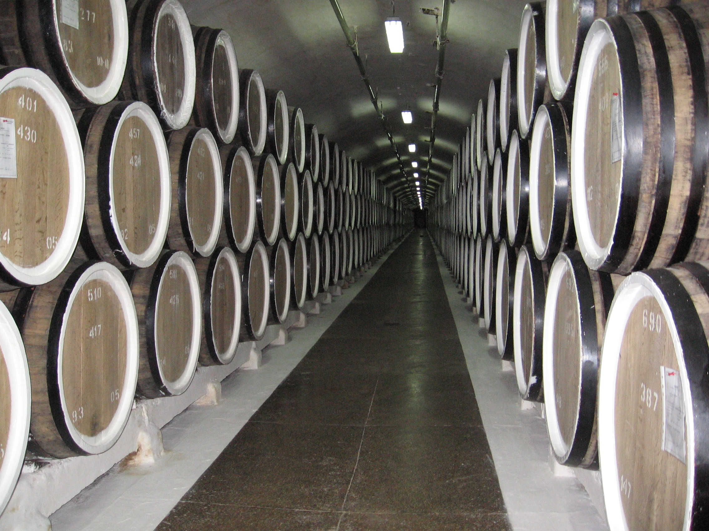 Massandra winery cellar, Crimea